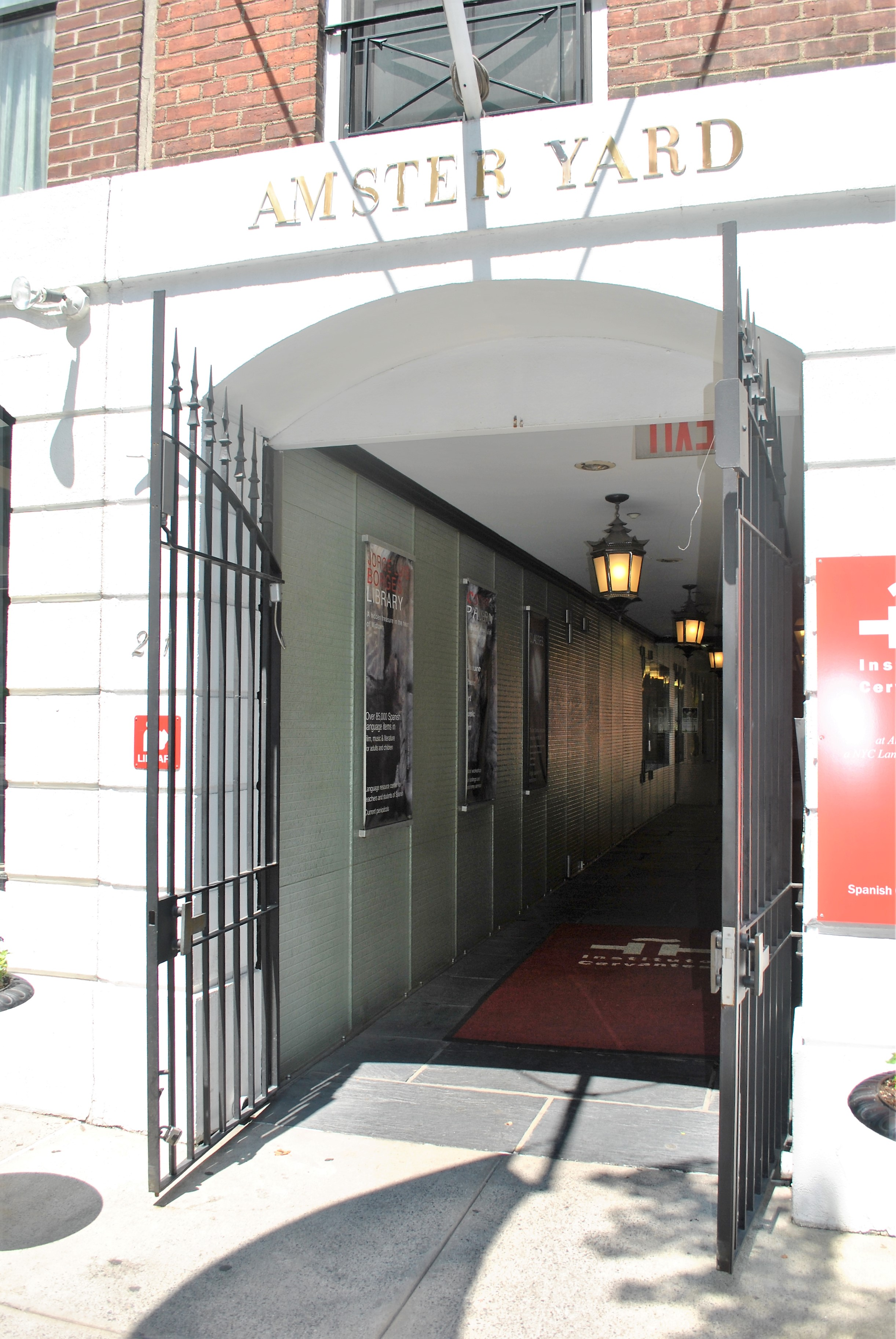 Image originally published in Queer Places: Retracing the Steps of LGBTQ people around the World Authored by Elisa Rolle